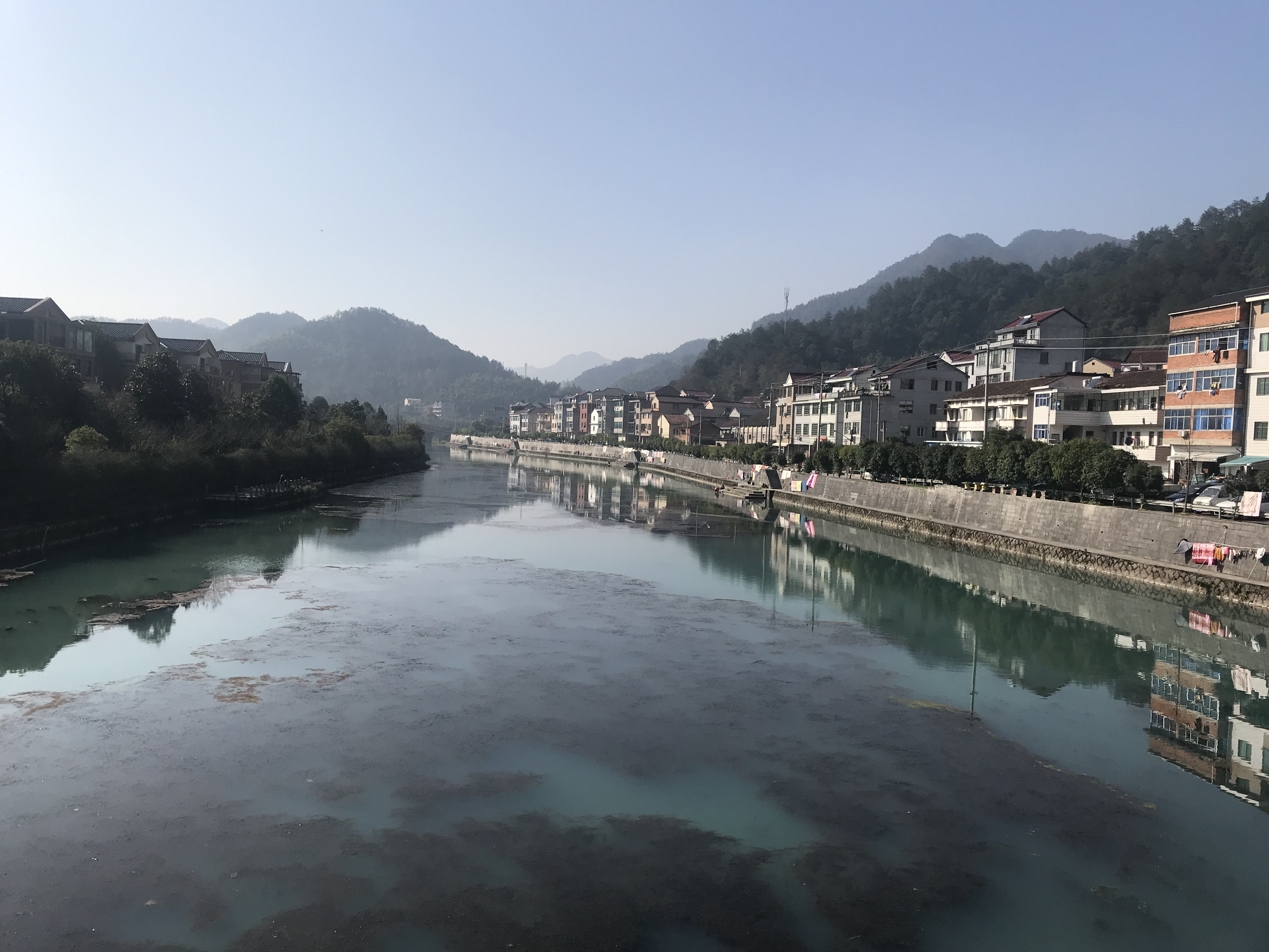 201812 Mei Brook in Andi Downtown